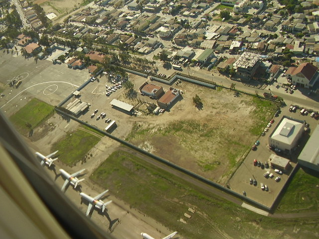 Tijuana International Airport